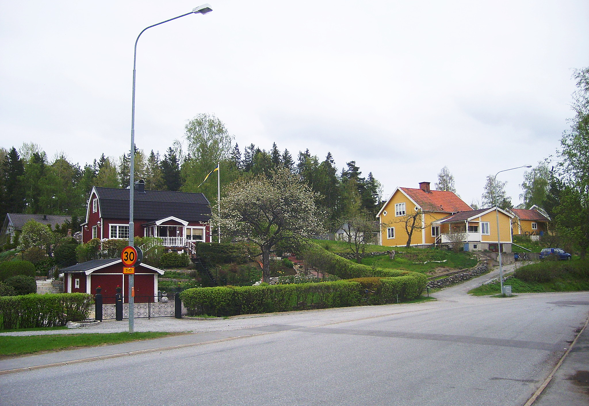 Family houses in Pershagen, an urban area outside Södertälje in Sweden.